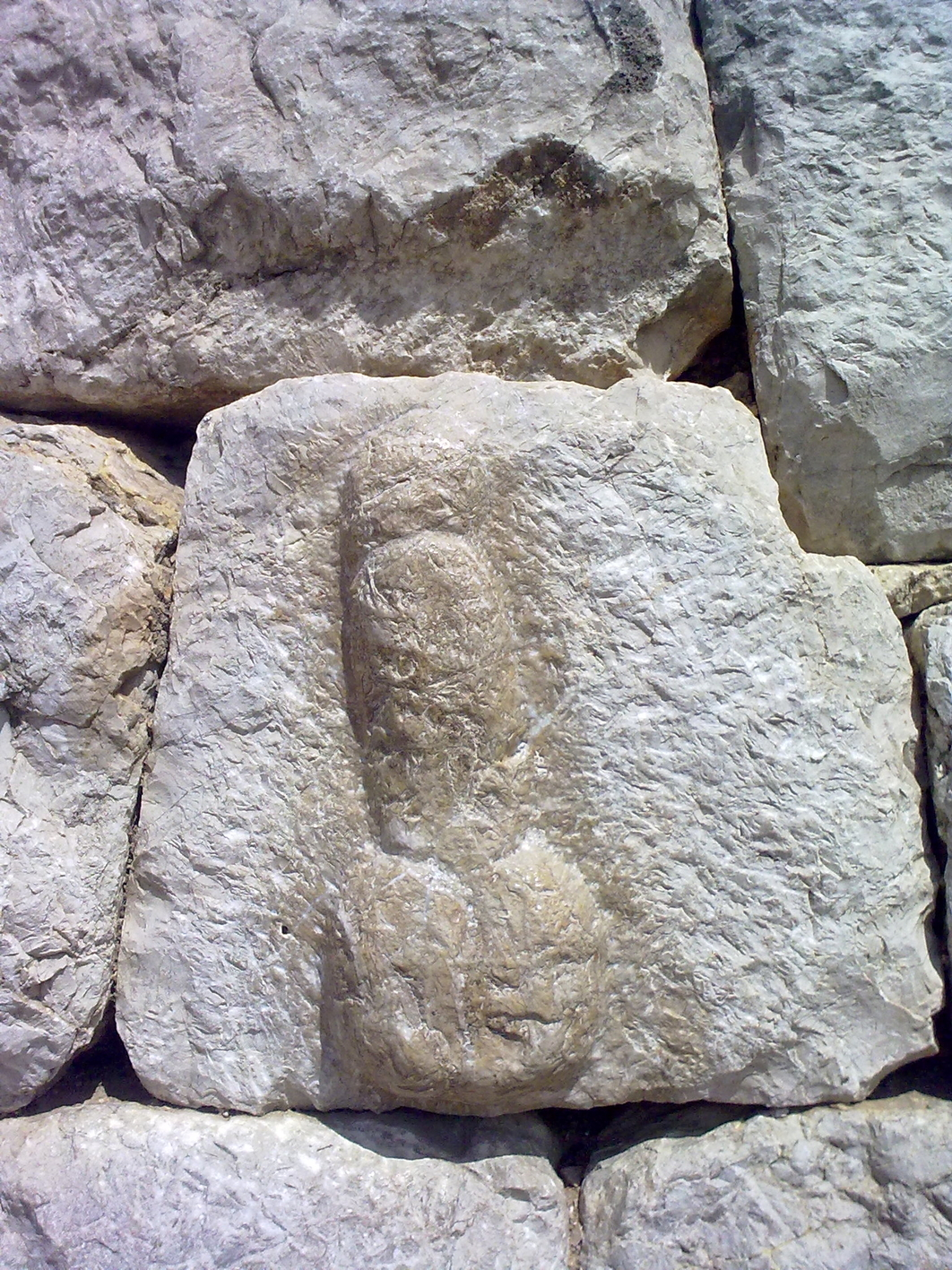 phallus at the cityentrance to old greek/roman town Empúries in Catalonia